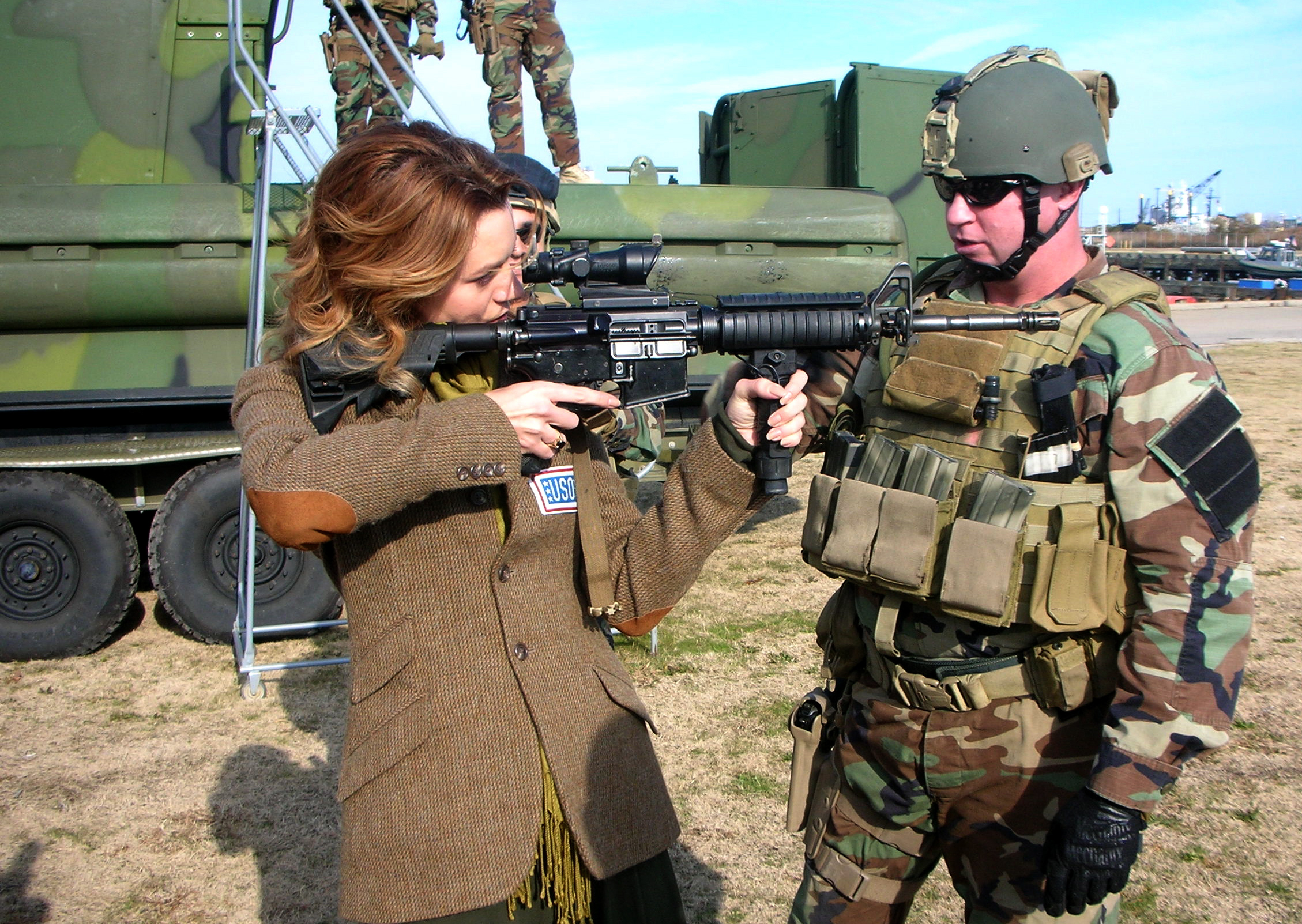 NORFOLK, Va. (Dec. 6, 2008) Chief Master-at-Arms Michael Minotto, assigned to Riverine Squadron 2, explains the functions of the M4 Battle Rifle to actress Hilarie Burton from the show, "One Tree Hill." Burton is on a scheduled United Service Organizations trip to Naval Amphibious Base Little Creek. (U.S. Navy photo by Mass Communication Specialist 2nd Class Michael R. Hinchcliffe/Released)